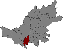 Location of Vallmoll in Alt Camp